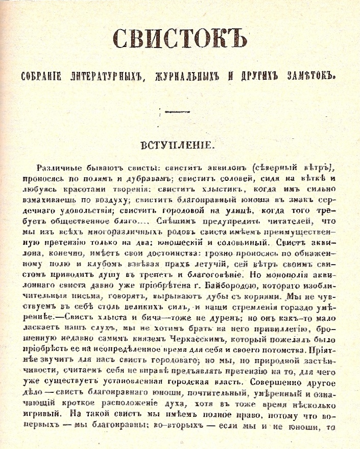 First page of the "Свисток" №1